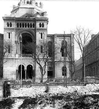 Destruction of the Great Synagogue of Lodz in 1939